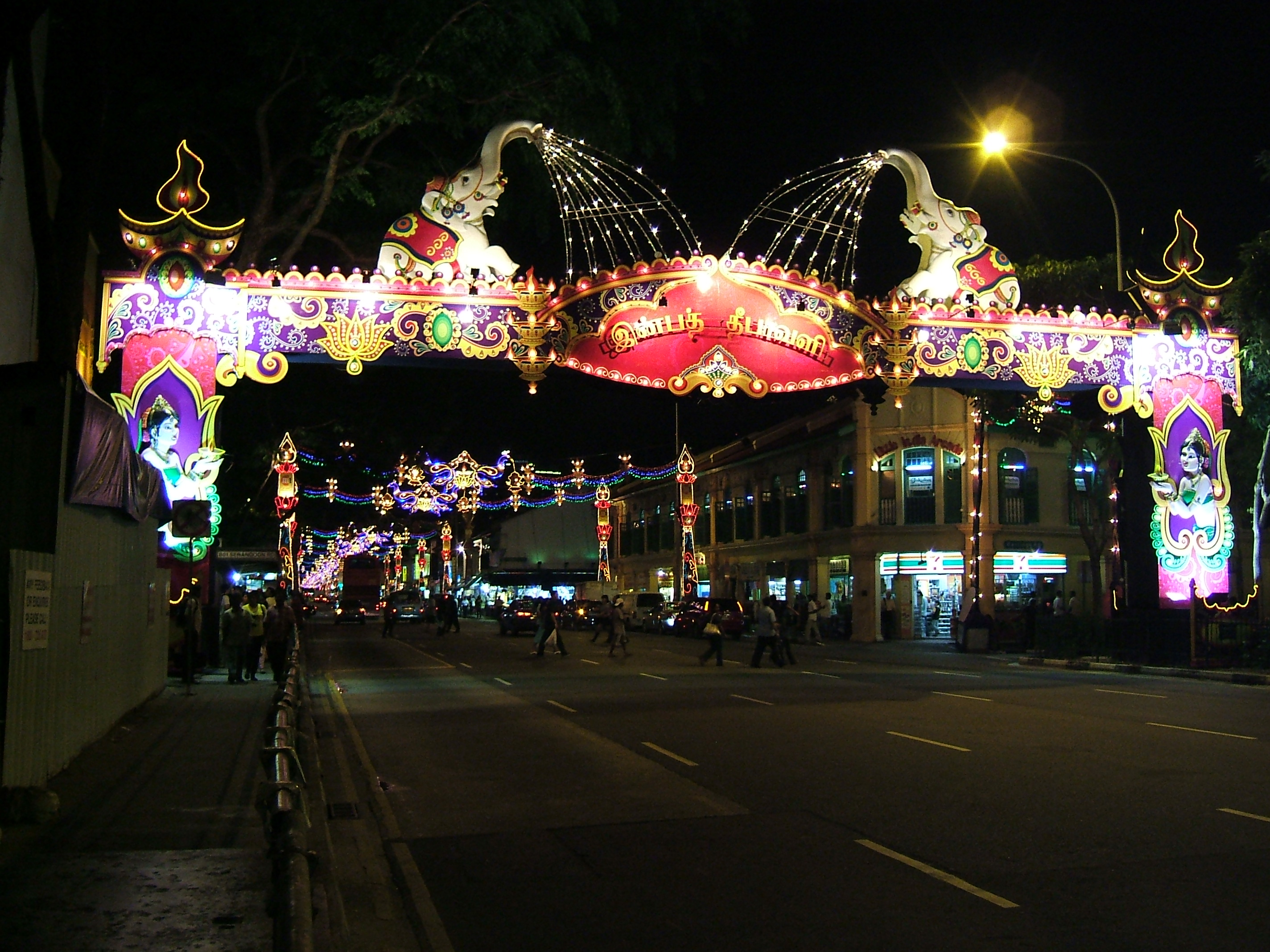 Singapore population includes a large South Indian origin population, who have celebrated Diwali and other Hindu festivals for over a century. Little India in Singapore decorated a week before Diwali.